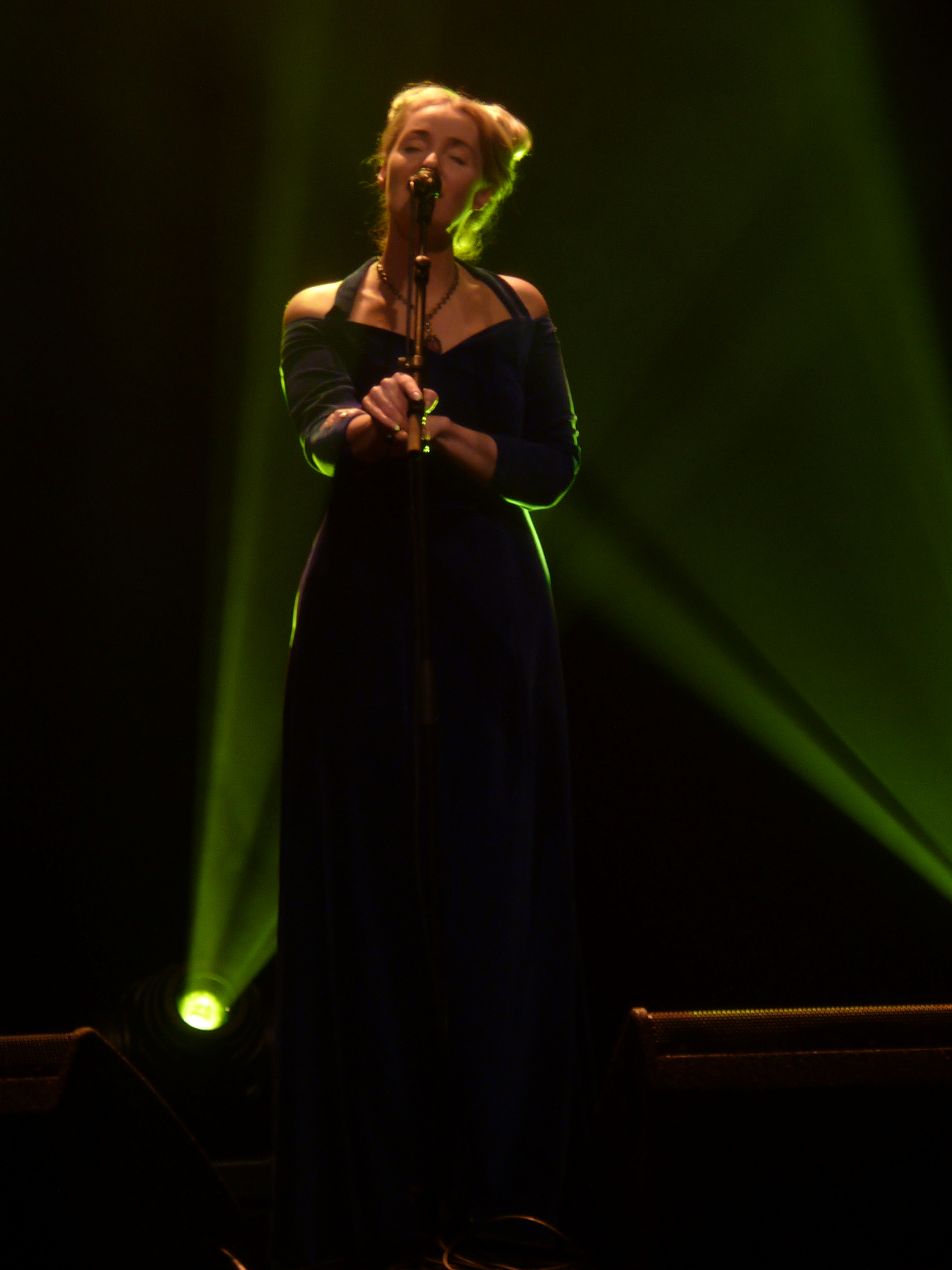 Lisa Gerrard - show at La Cigale - Paris - France.